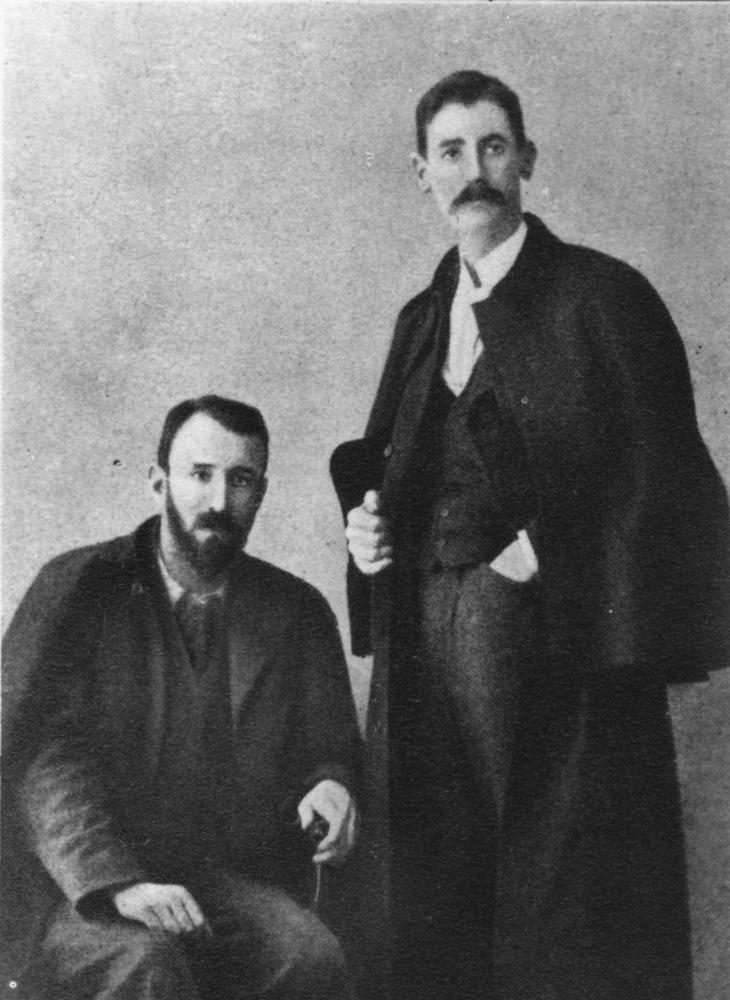 Poet J. Le Gay Brereton, pictured with Henry Lawson, 1897